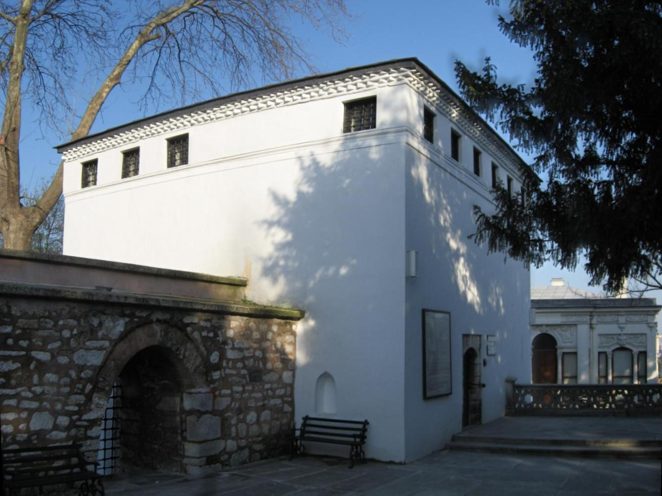 Tower of the Chief Tutor at Topkapi Palace in Istanbul.